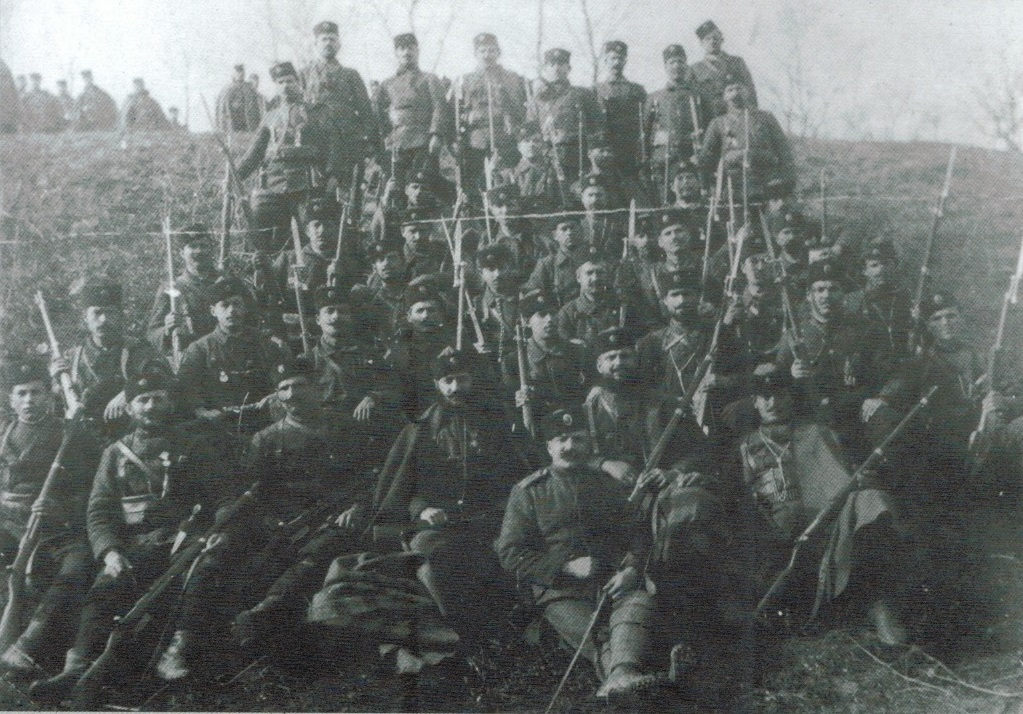 Panayot Karamfilovich's Detachment in Macedonia